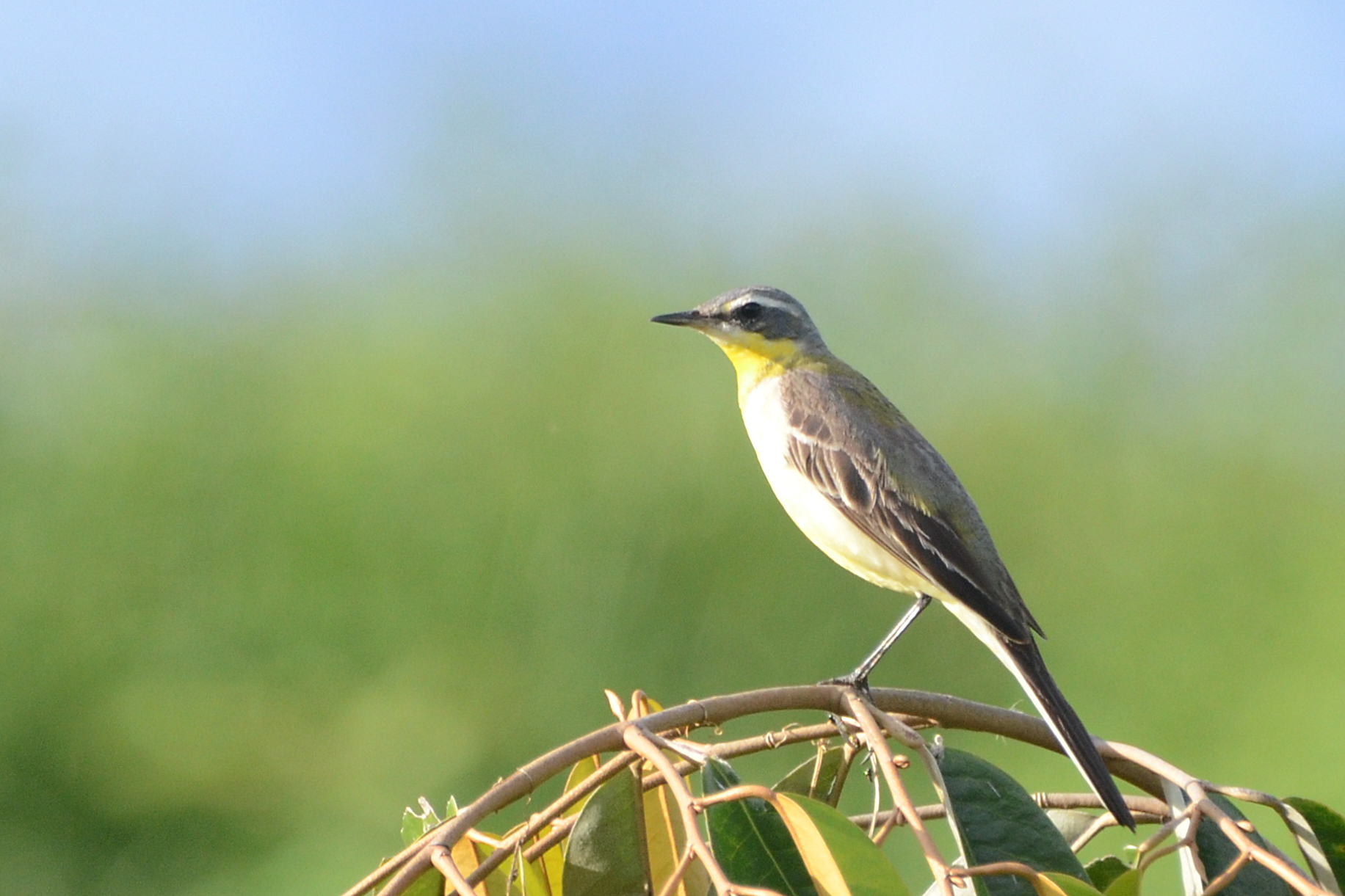 Eastern Yellow Wagtail Motacilla tschutschensis at Warembungan, North Sulawesi